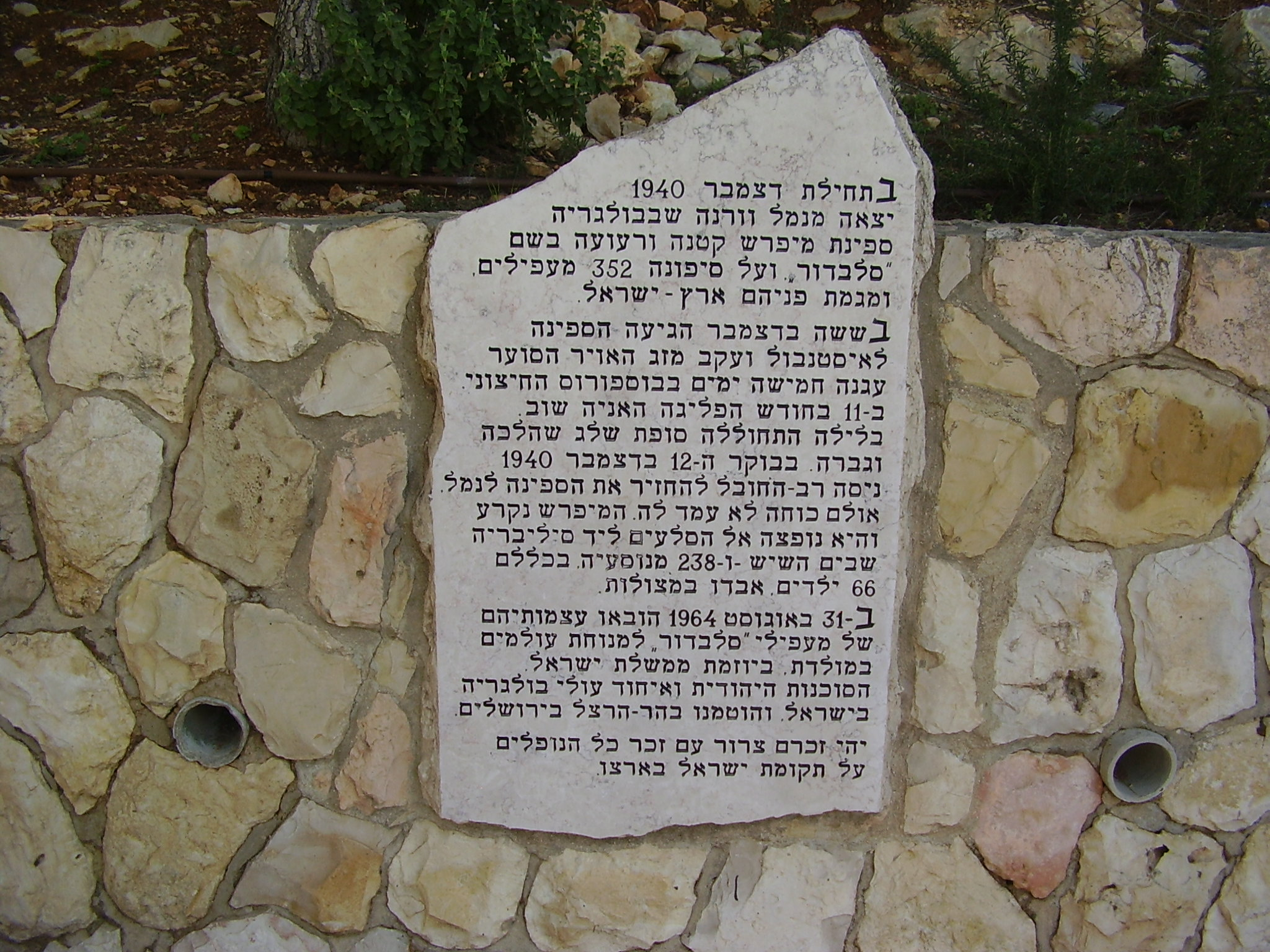 monument to the victims on immigrants ship salvador, on mount herzl